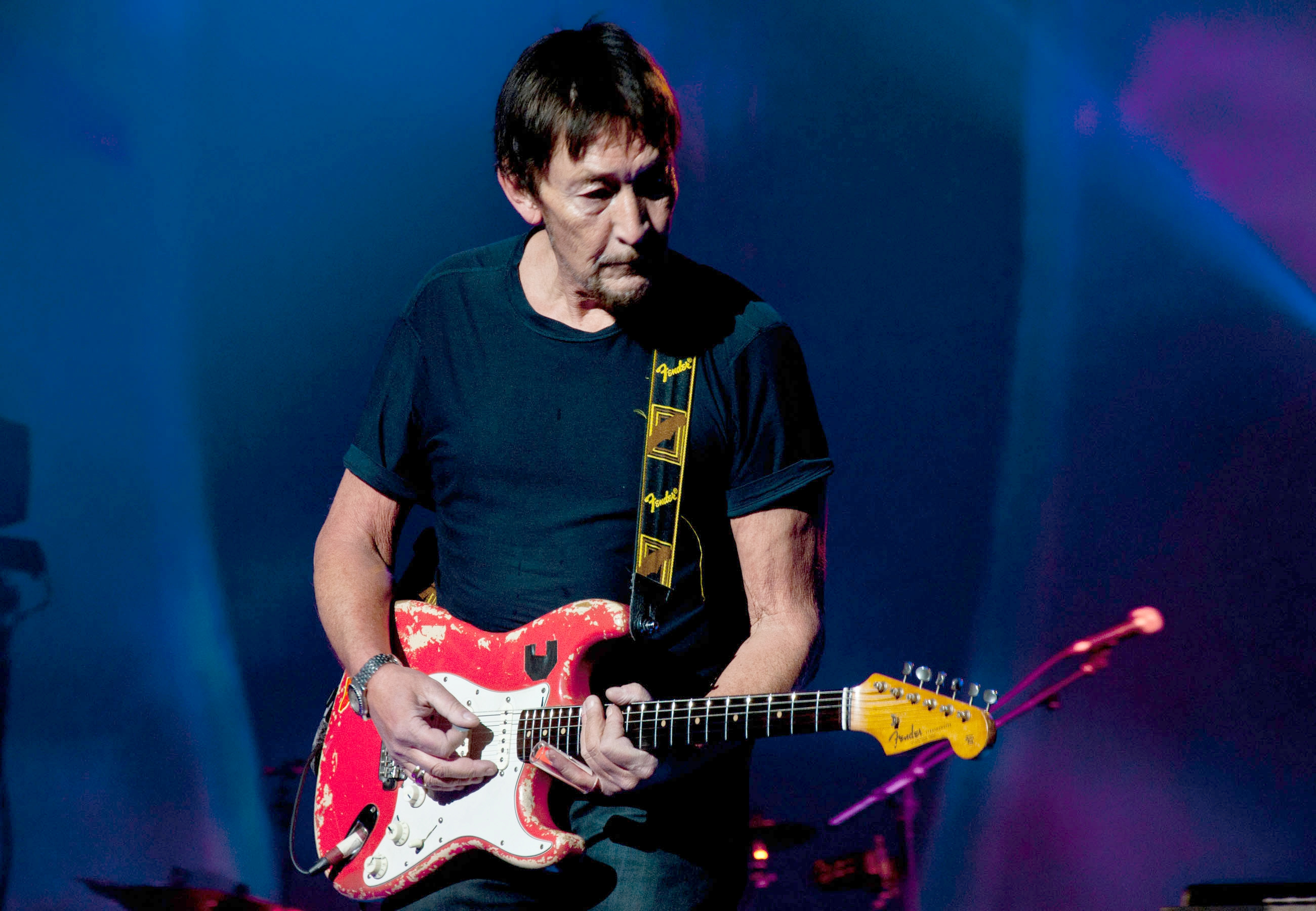 Chris Rea, Concert at Sala Kongresowa, Warsaw, Poland on February 5, 2012 during Santo Spirito Tour